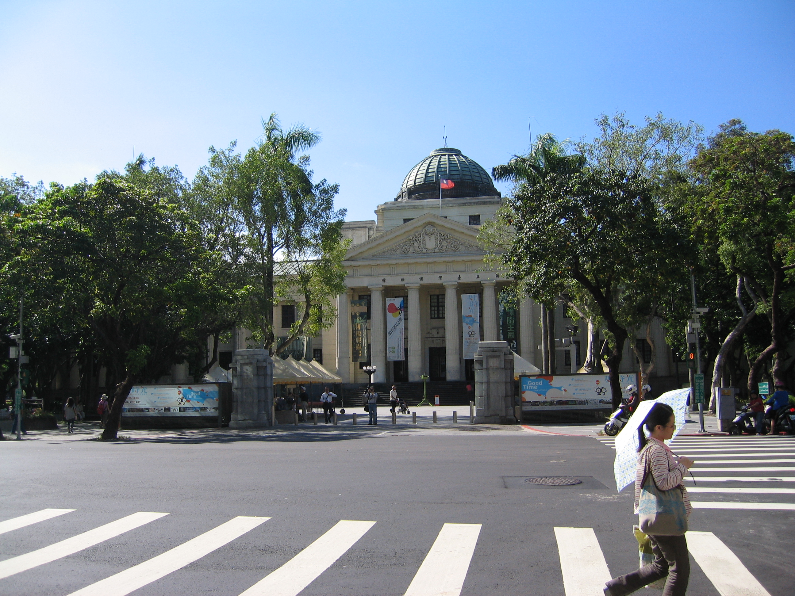 Front view of the National Taiwan Museum with women crossing road in foreground.